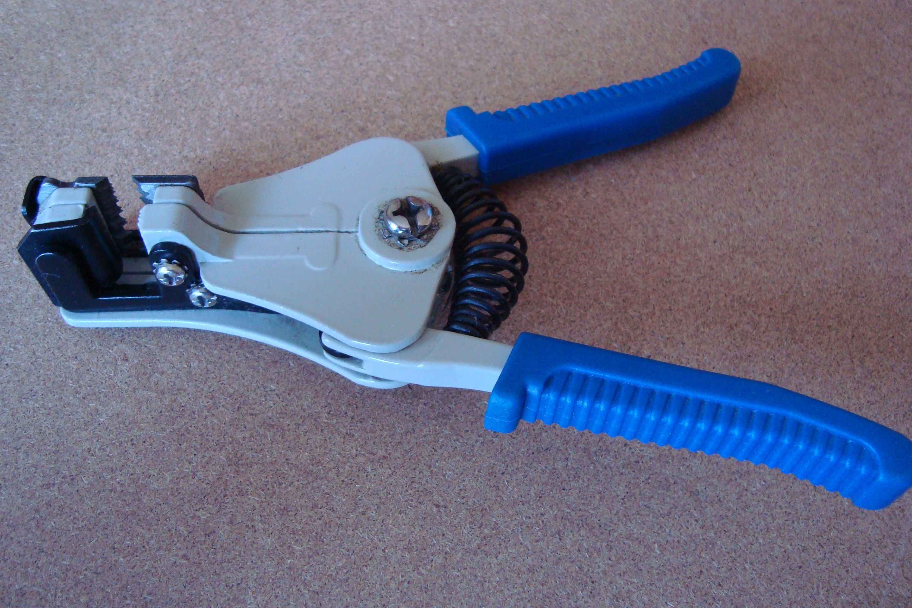 Striper Tool